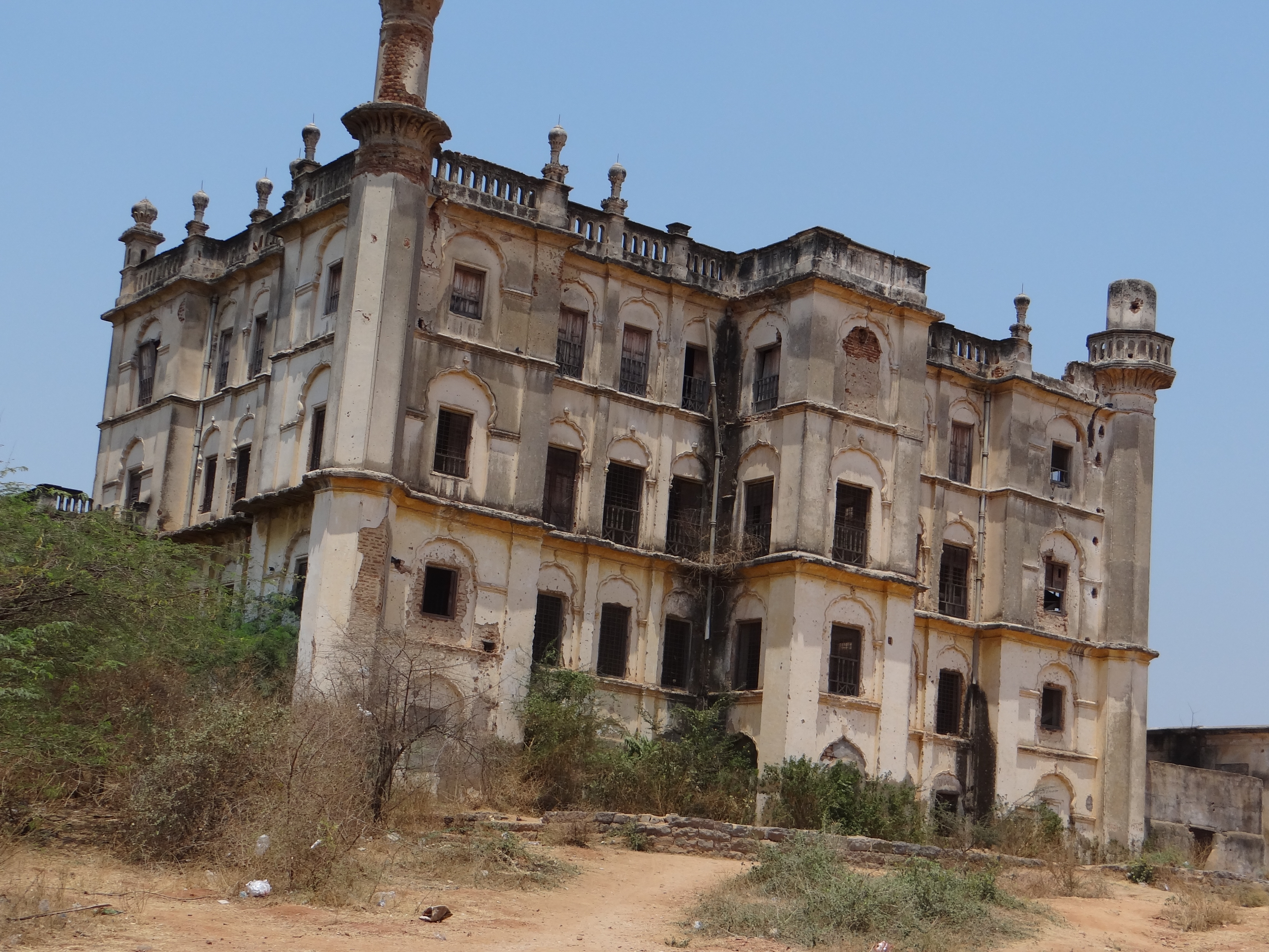 Its a buliding of a old college but closed and a place where many films are been taken. Asafiya High School